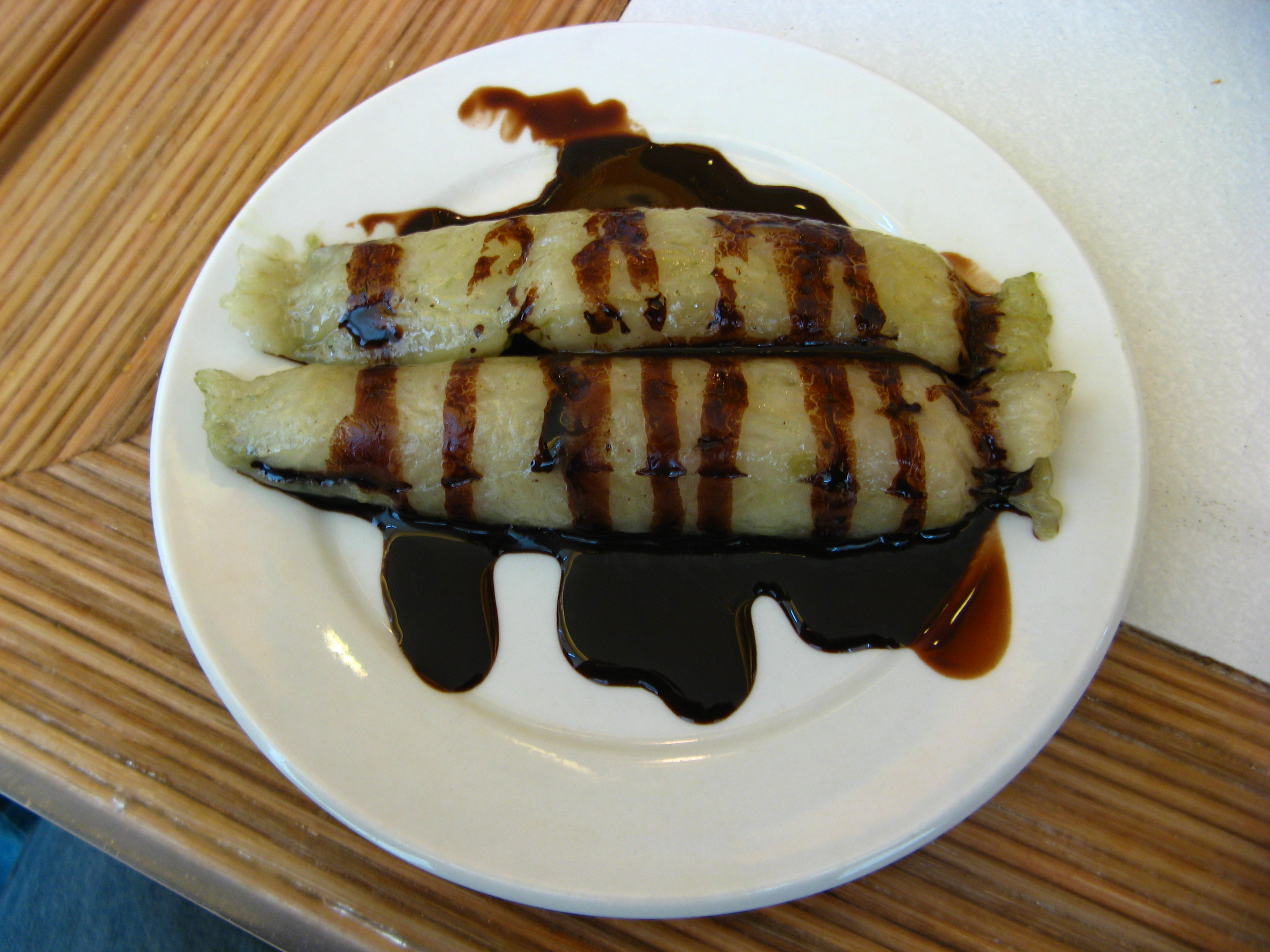 A cooked rice cake dessert drizzled with a caramelized coconut cream.